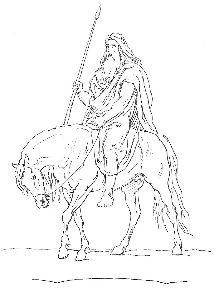 Odin rides atop the horse Sleipnir (here depicted with four legs rather than his characteristic eight), holding his spear Gungnir. Odin is presumably riding to find information about his son Baldr's bad dreams, and the image appears on the title page of this translation of Baldrs draumar.